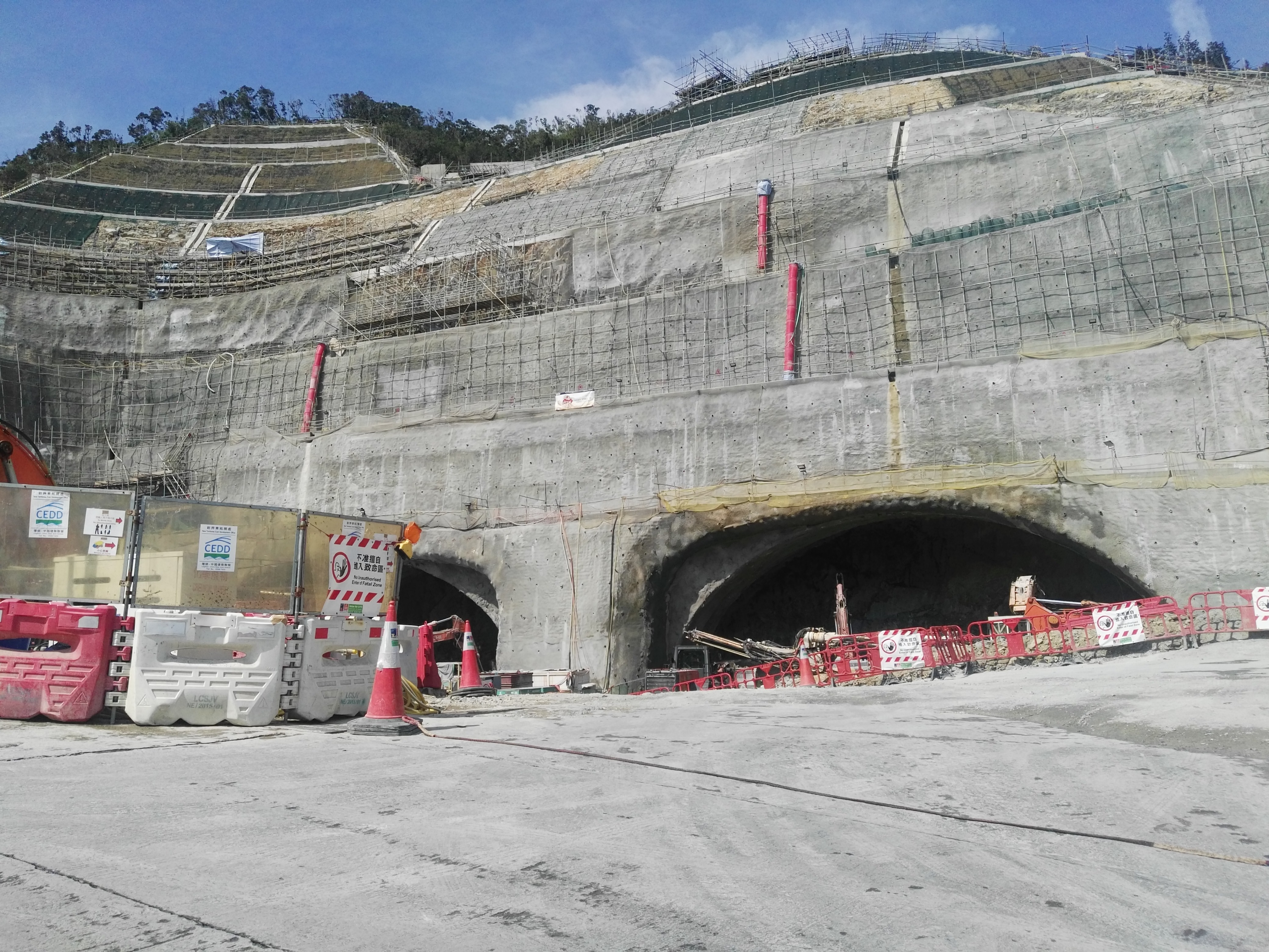 Tseung Kwan O - Lam Tin Tunnel under construction in February 2019